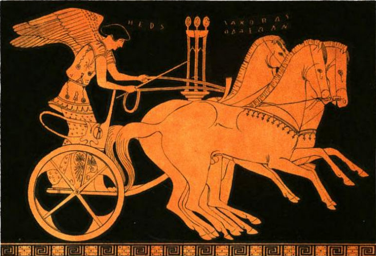 Eos